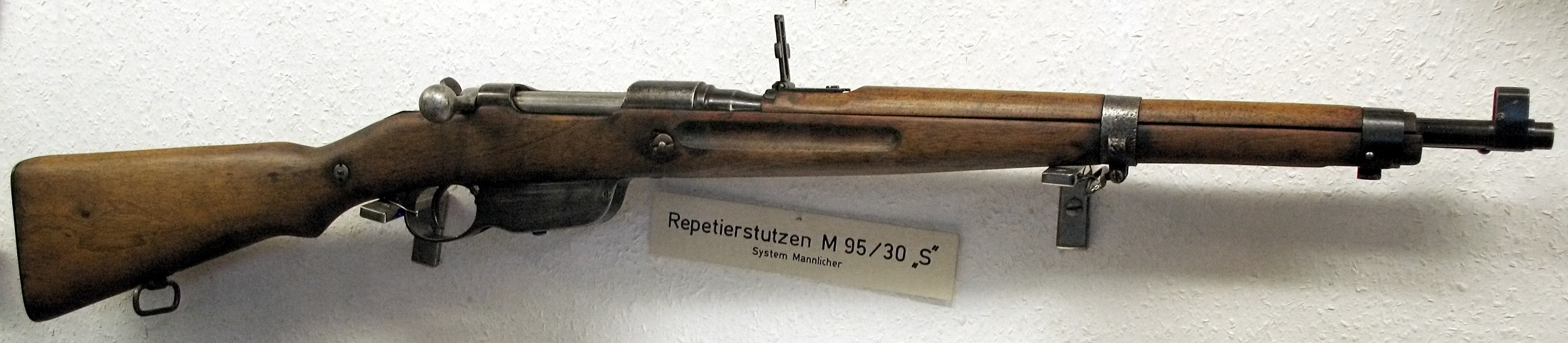 Steyr Mannlicher Repetierstutzen M95/30 (M1895) in the High Fortress, Salzburg, Austria